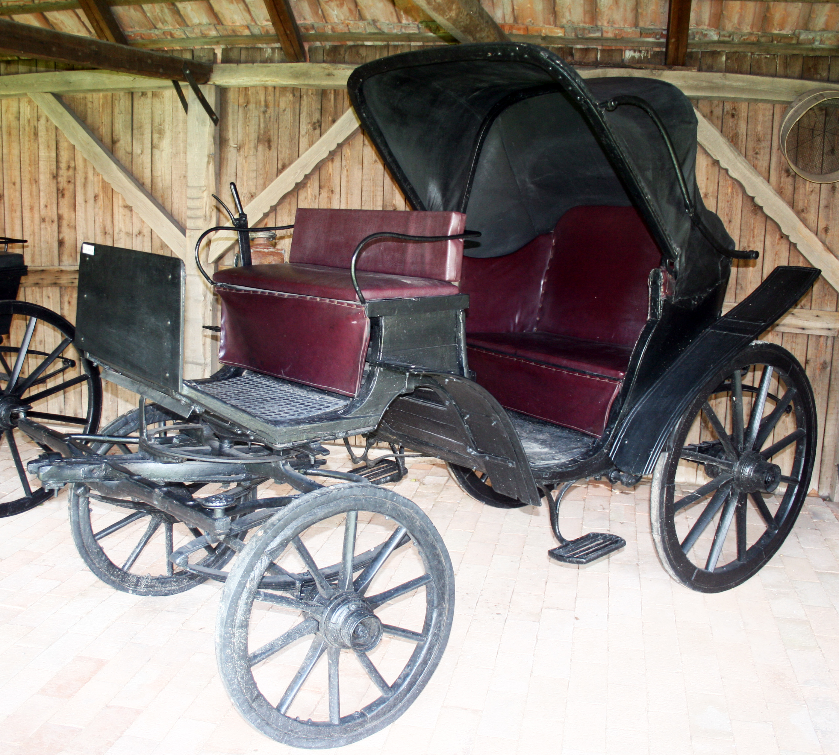 Kölber half-covered coach